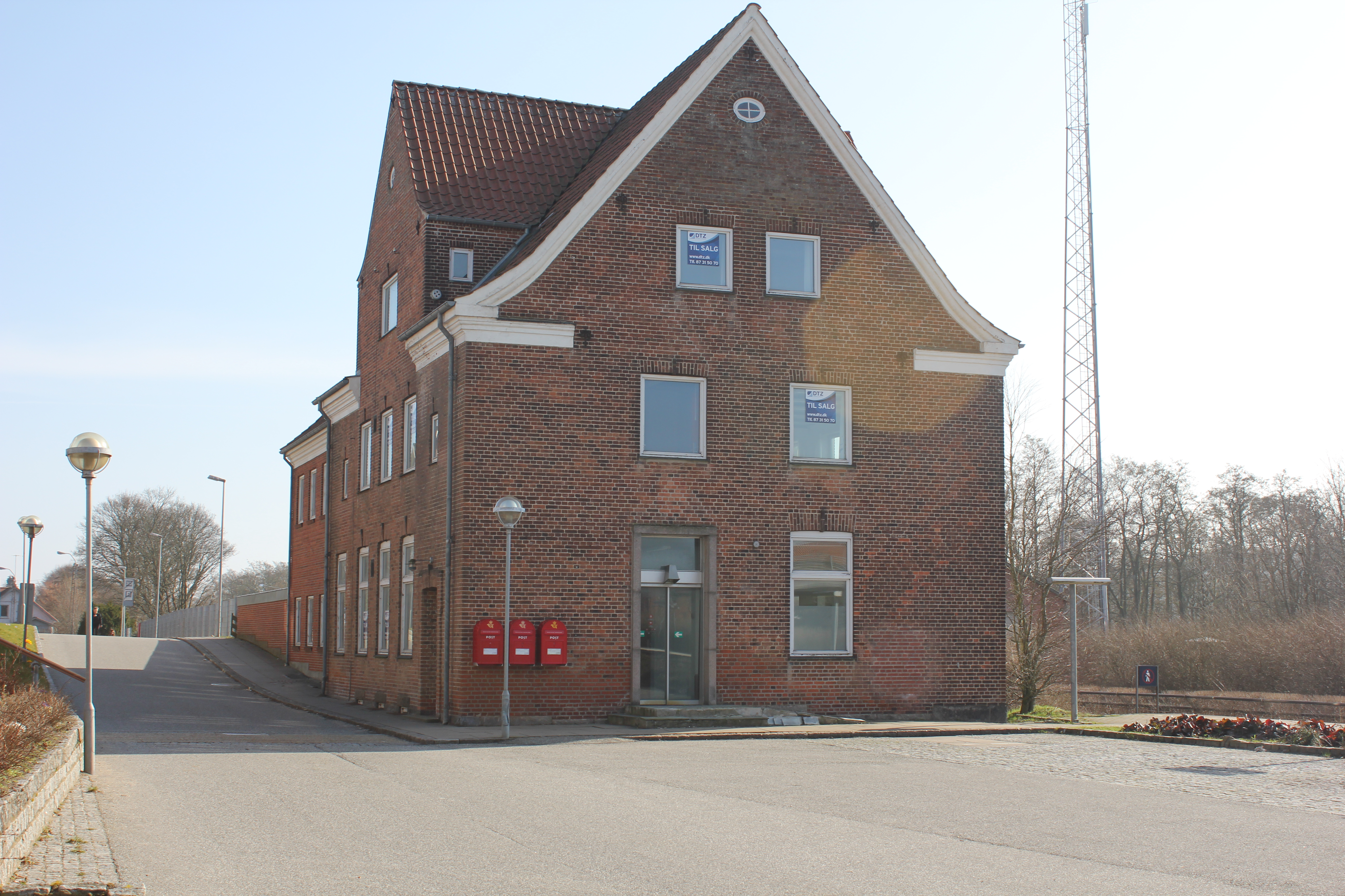 Det tidligere posthus i Hadsten set fra vest mod øst i 2014.